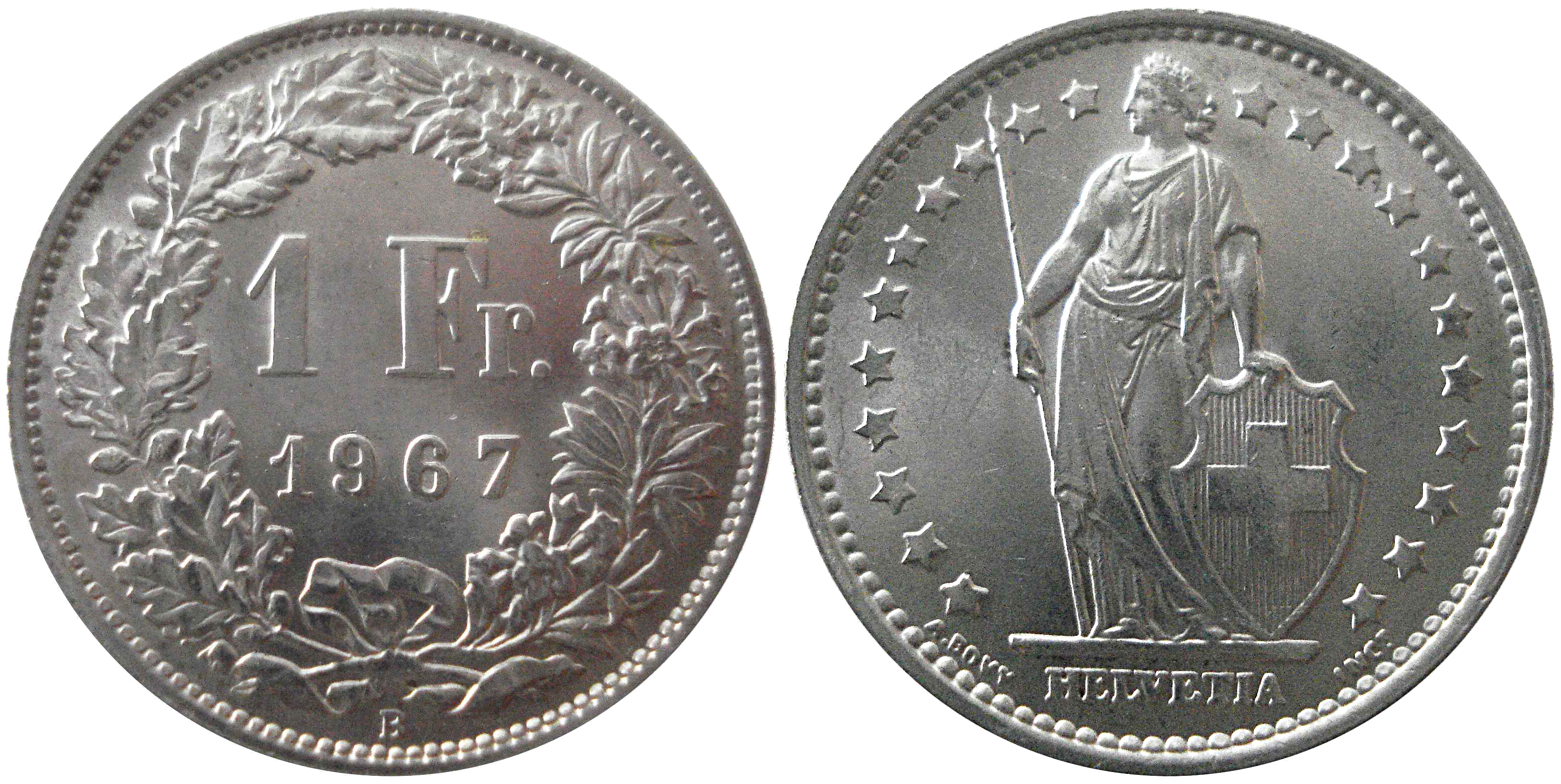 1 Franken 1967, Ag 835